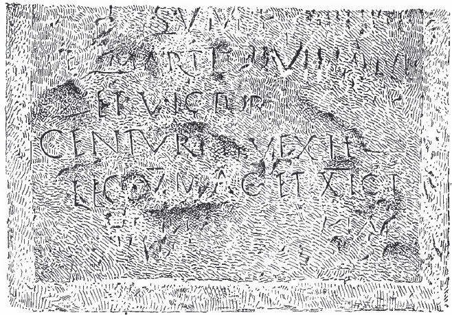 This is a sketch of a Roman Inscription made by a French Archaeologist, C. Clermont-Ganneau, and printed in "Archaeological Researches in Palestine during the Years 1873-74," London 1899, pp. 263-270.